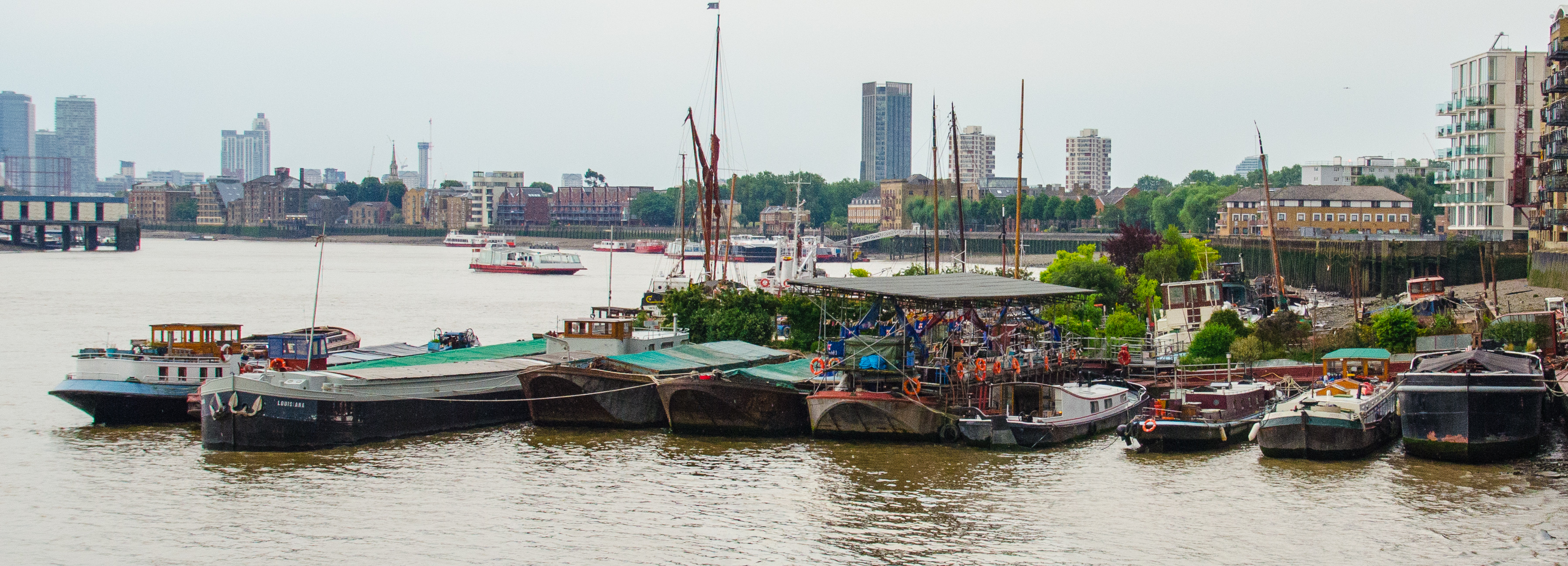 Downings Roads Moorings from the Shad Themse